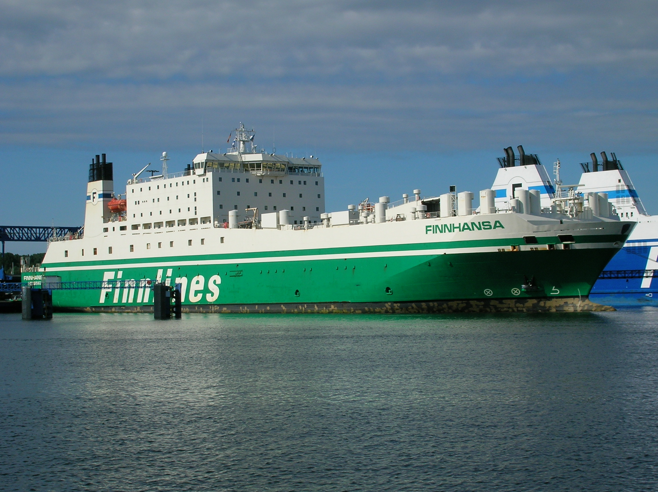 The M/S Finnhansa at the Skandinavienkai in Travemünde (2008) IMO Number: 9010151